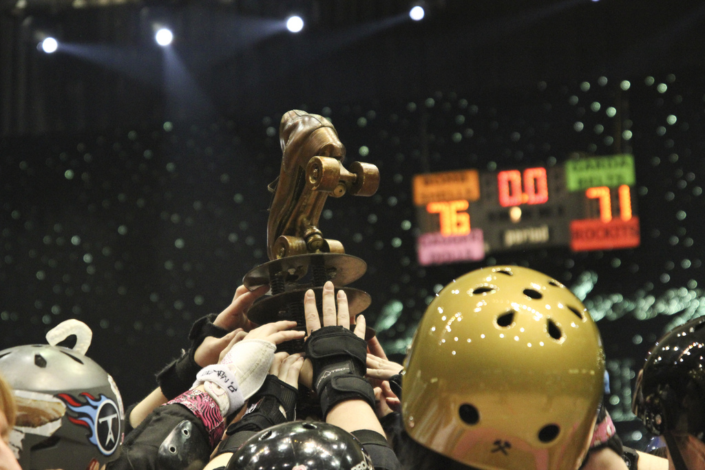 The Dagger Dolls win the Golden Skate, Season 8, Spring 2012